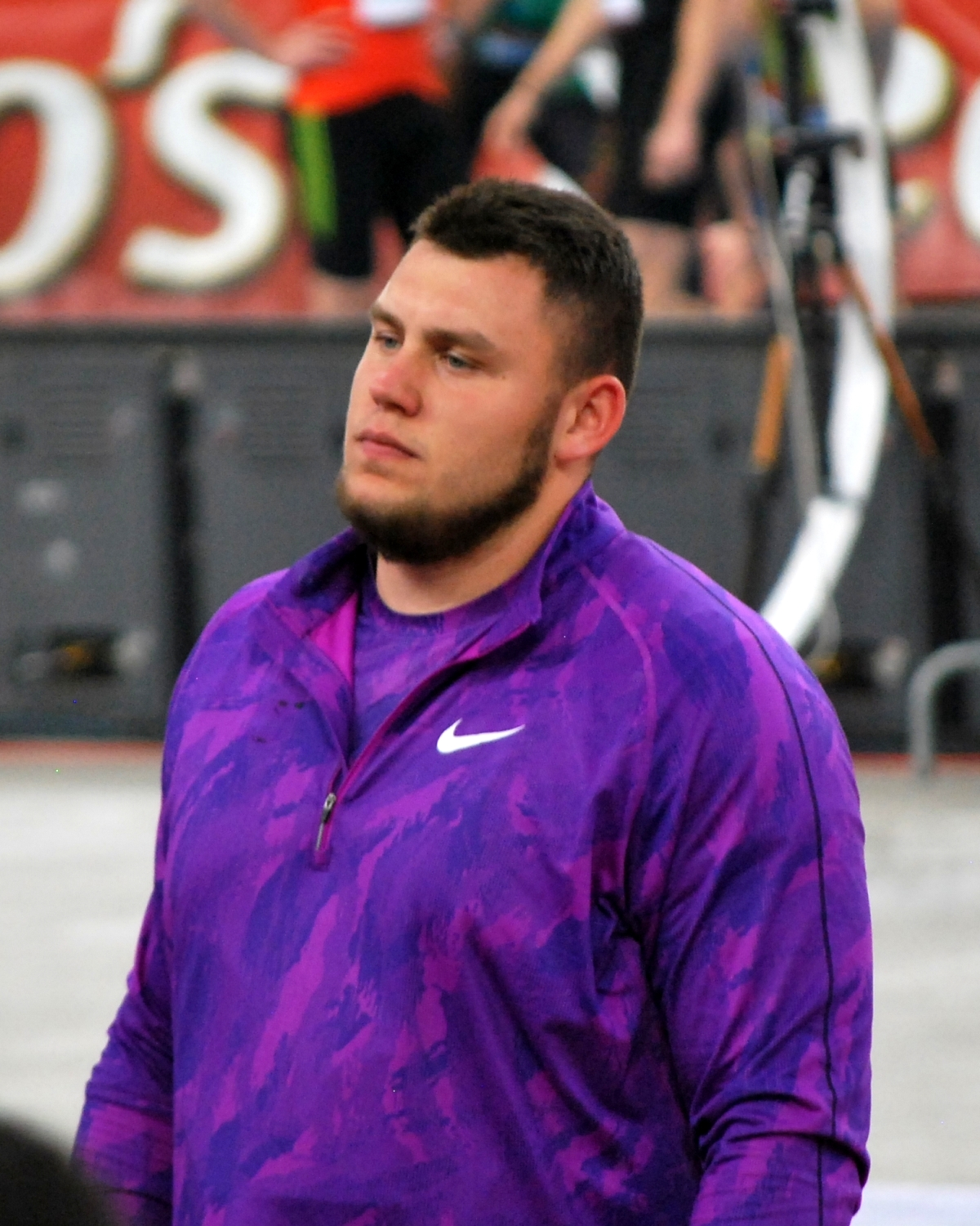 Konrad Bukowiecki, shot putter from Poland, Pedro's Cup Łódź 2016